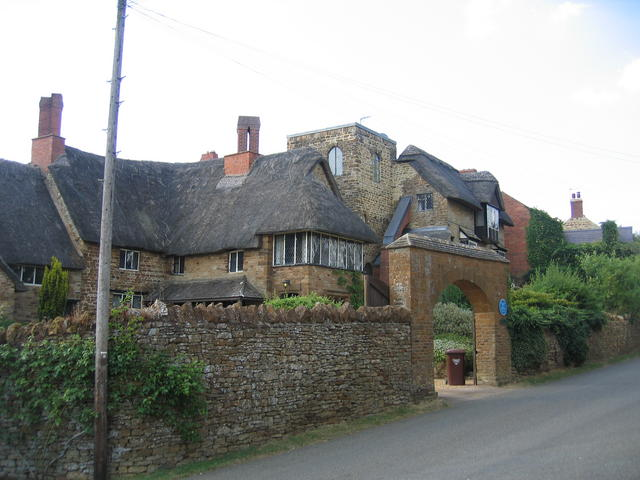 The Manor House, Temple Mill Road, Sibford Gower, Oxfordshire, seen from the southeast. A blue plaque outside (273647) records that this was the home of Frank Lascelles.